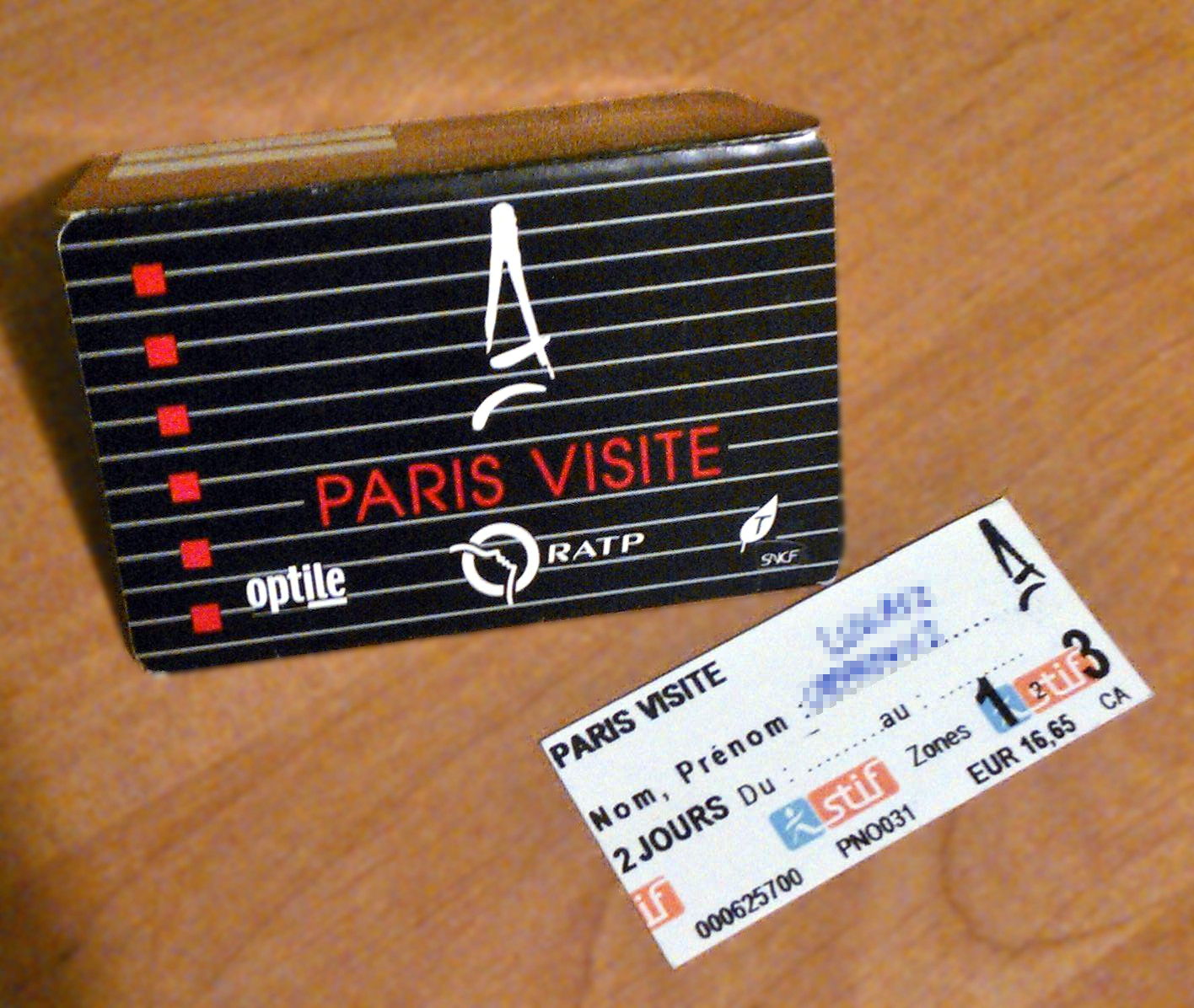 Paris Visite Pass - valid for two days in the zones 1-3.